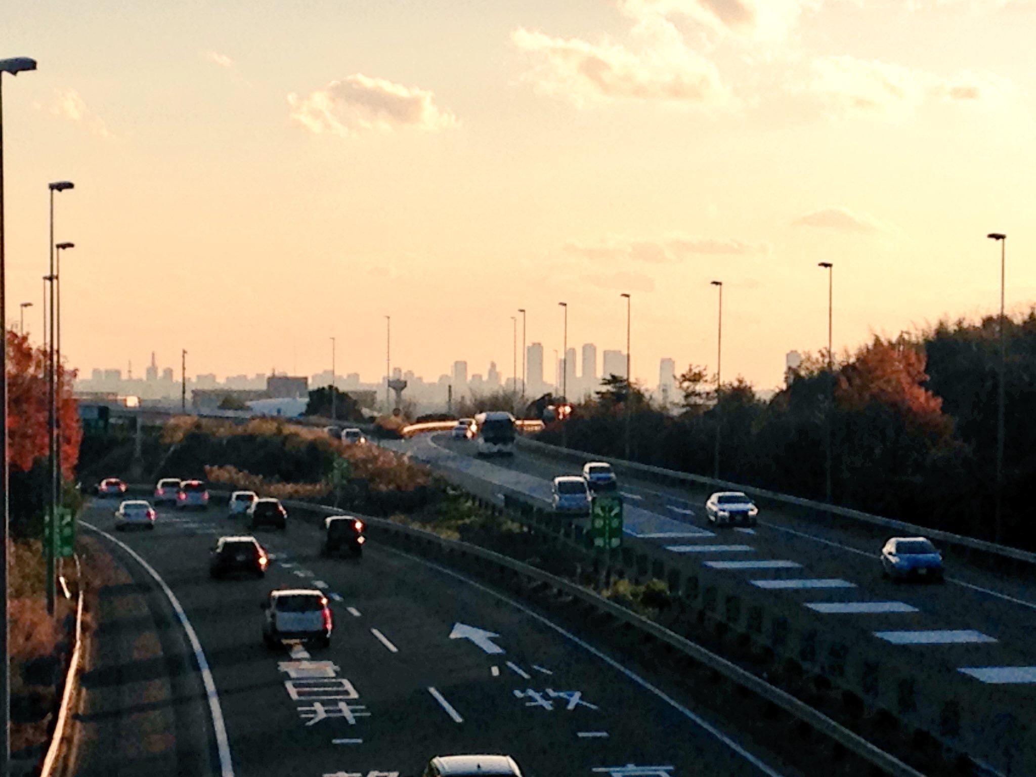 Komaki Junction001